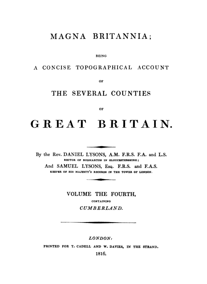 The title page to Volume 4 of Daniel and Samuel Lysons' 6-part work Magna Britannia, published between 1806 and 1822.